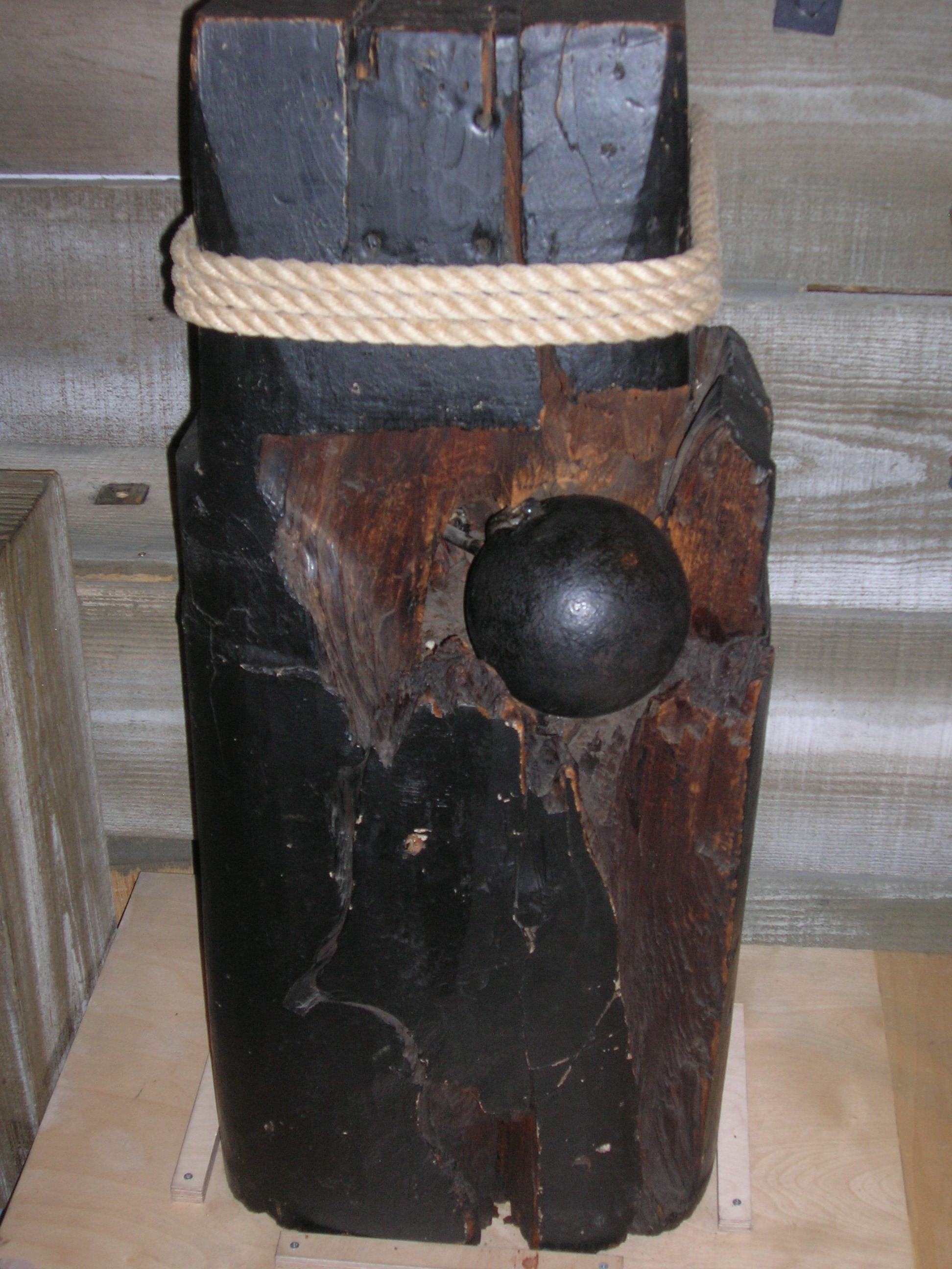 Photo of exhibit at the National Maritime Museum, Greenwich